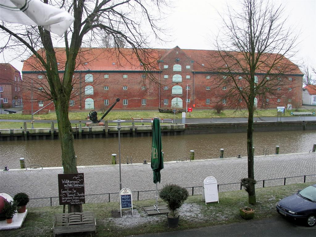 Tönning (Slesvic-Holstein, Germany), storehouse , photo 2005